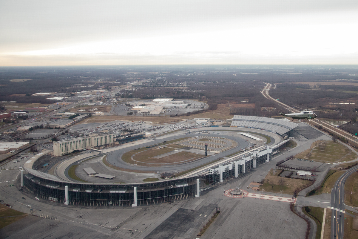 President Donald Trump flies over Dover International Speedway aboard Marine One en route to Dover Air Force Base, Wednesday, February 1, 2017. (Official White House Photo by Shealah Craighead)